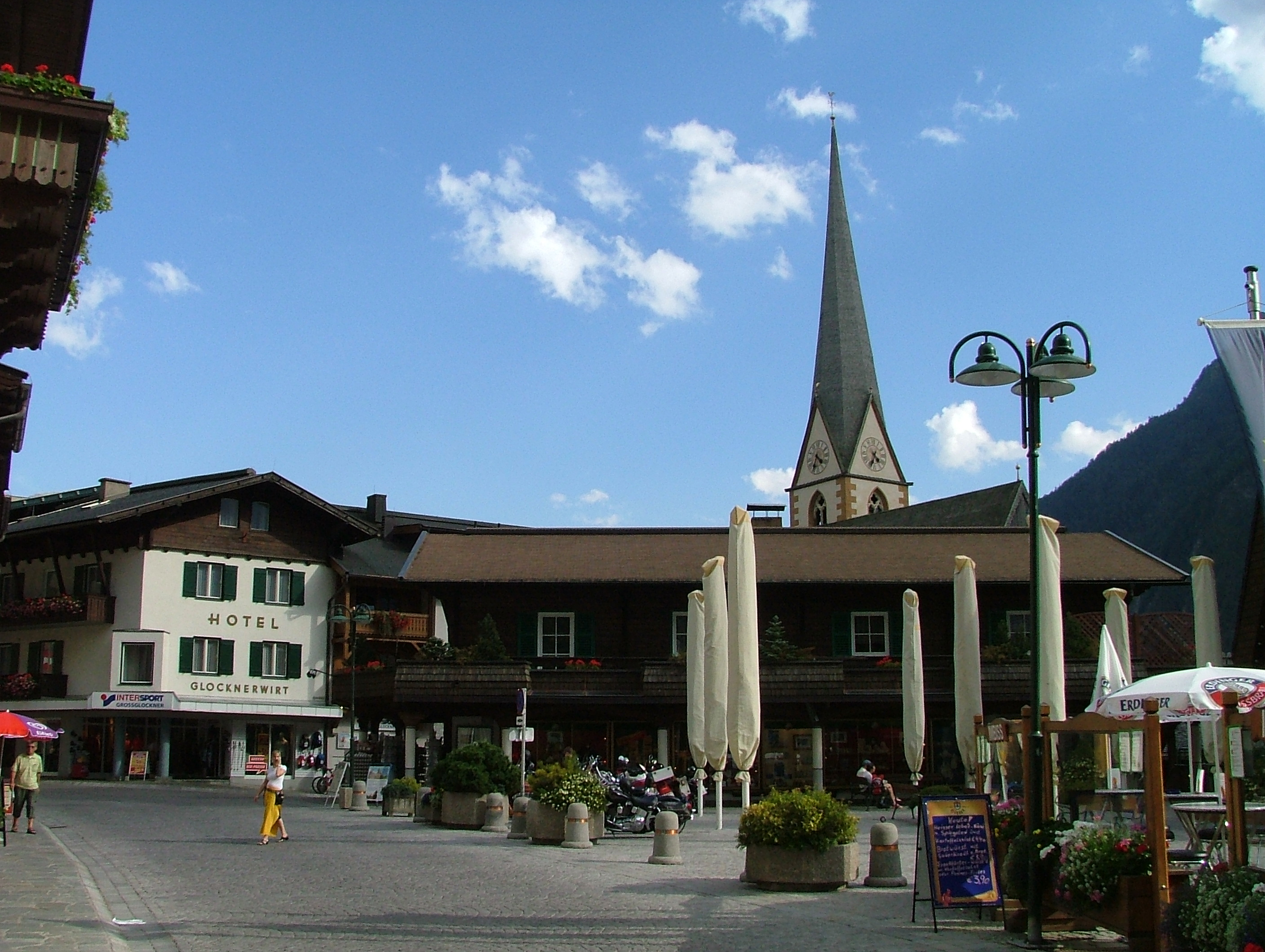 market place Heiligenblut Carintha